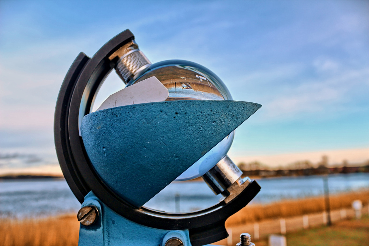 Weather station in Radzyń